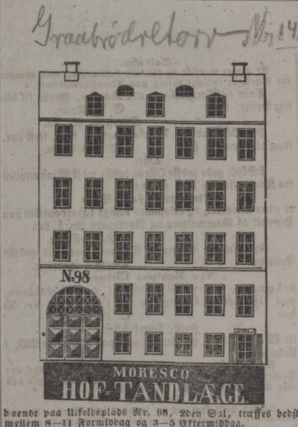 Gråbrødretorv nr. 14, tidligere Ulfeldts Plads nr. 98: Moresco Hof-Tandlæge . Jacob Heinrich Moresco's father)